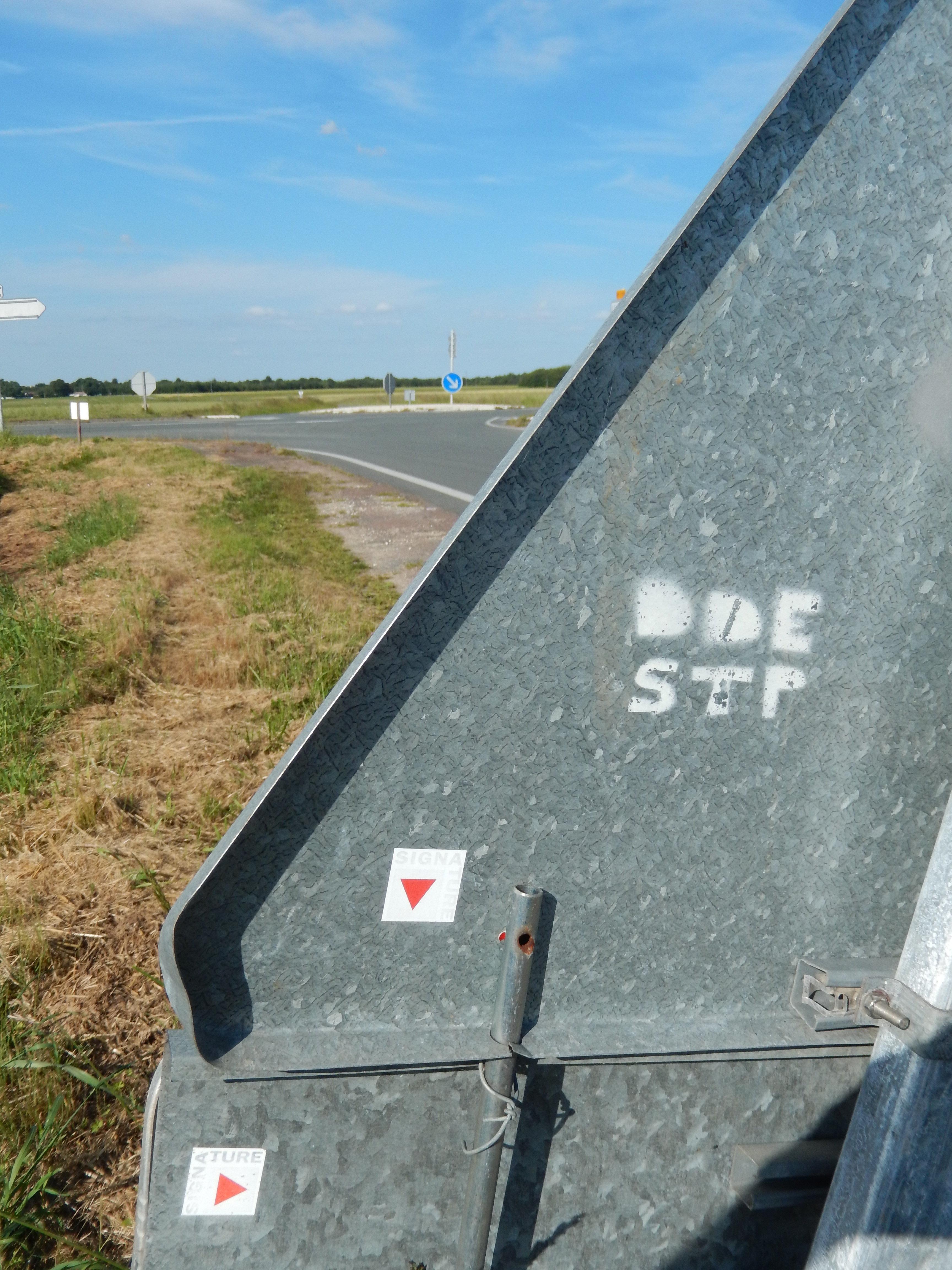 Temporary road sign, seen from its back, near the crossing of the roads D119 and D137 (location: Saint-Porchaire, Charente-Maritime, France).